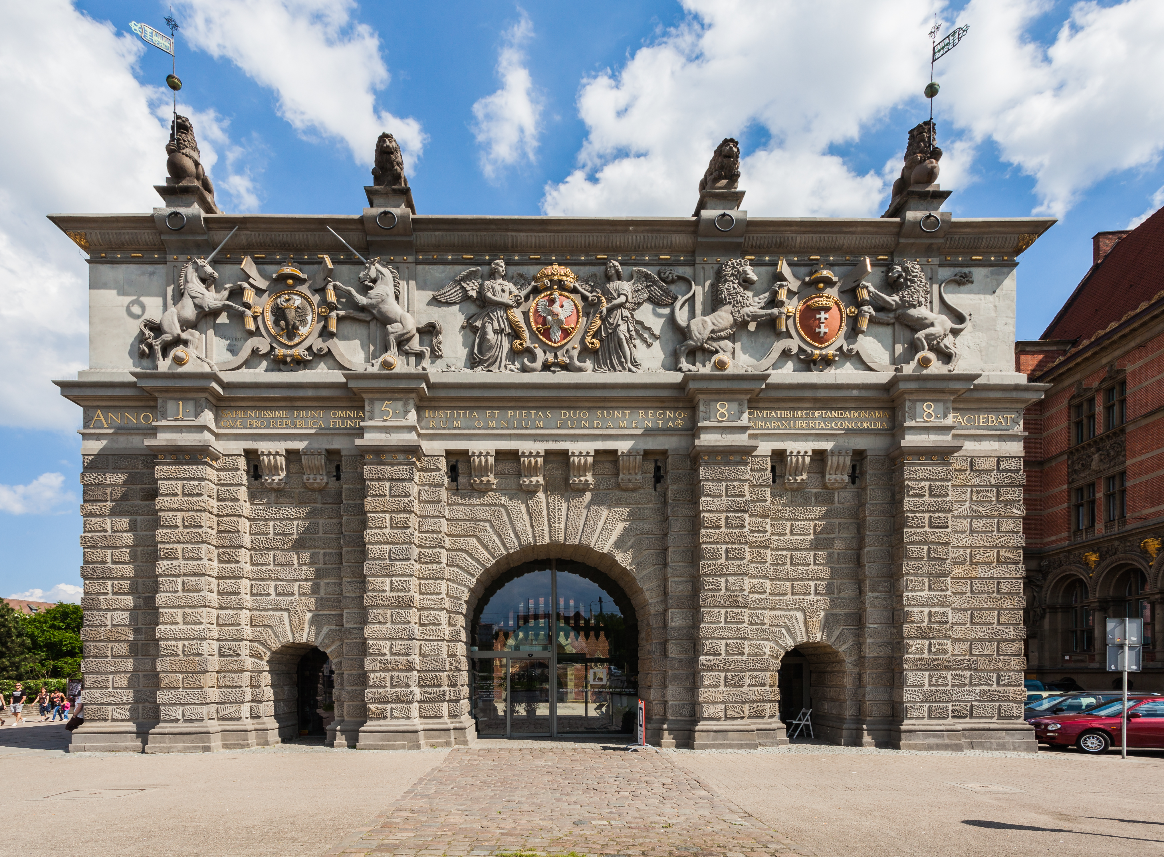 Highland Gate, Gdansk, Poland